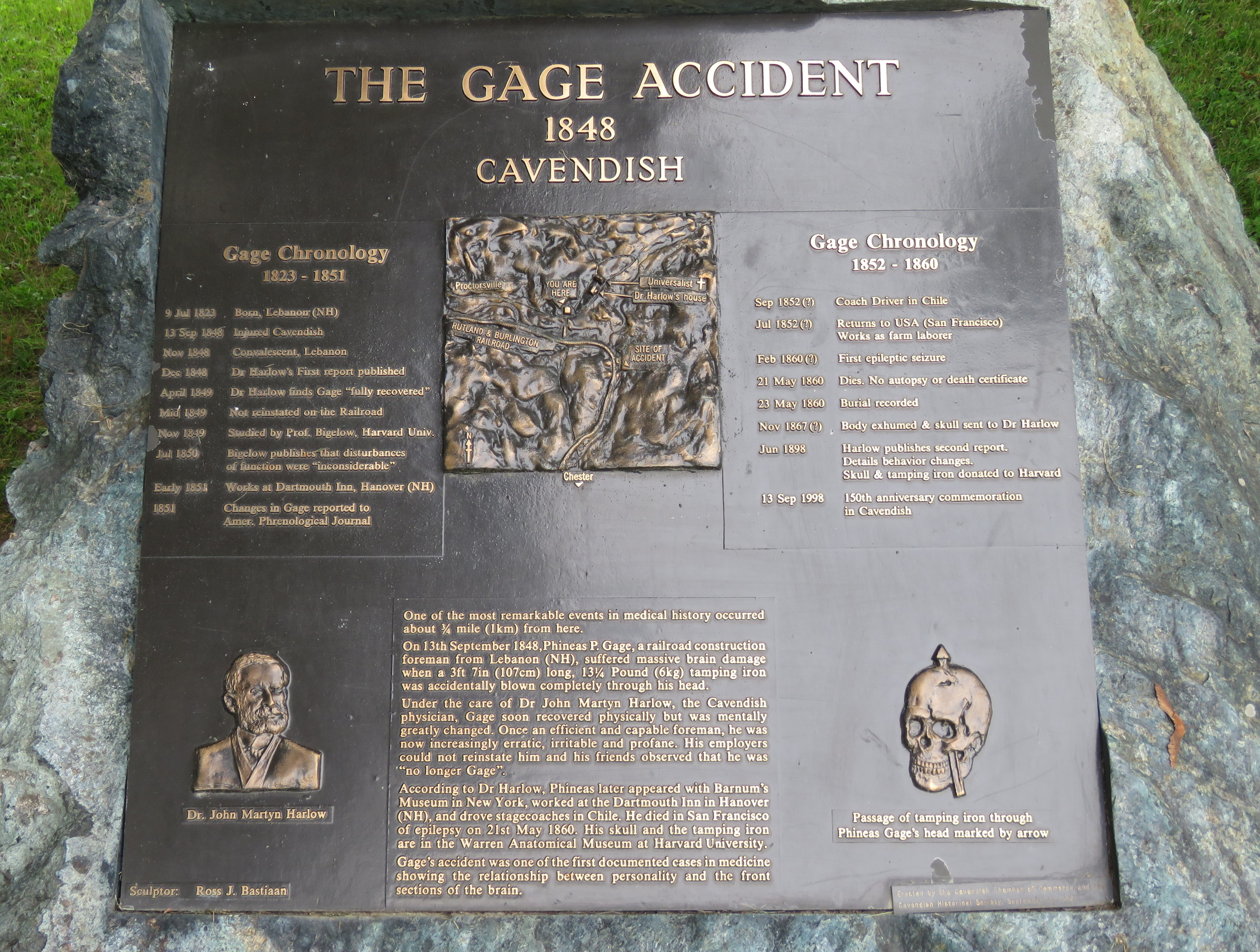 Roadside plaque in Cavendish, Vermont (Main Street between Mill Street and High Street) memorializing Phineas Gage, his famous accident, and his physician John Martyn Harlow; dedicated September 13, 1998 (the 150th anniversary of Gage's accident). See Malcolm Macmillan, An Odd Kind of Fame: Stories of Phineas Gage, p. 378. Erratum: "Jul 1852" should read "Jul 1859"